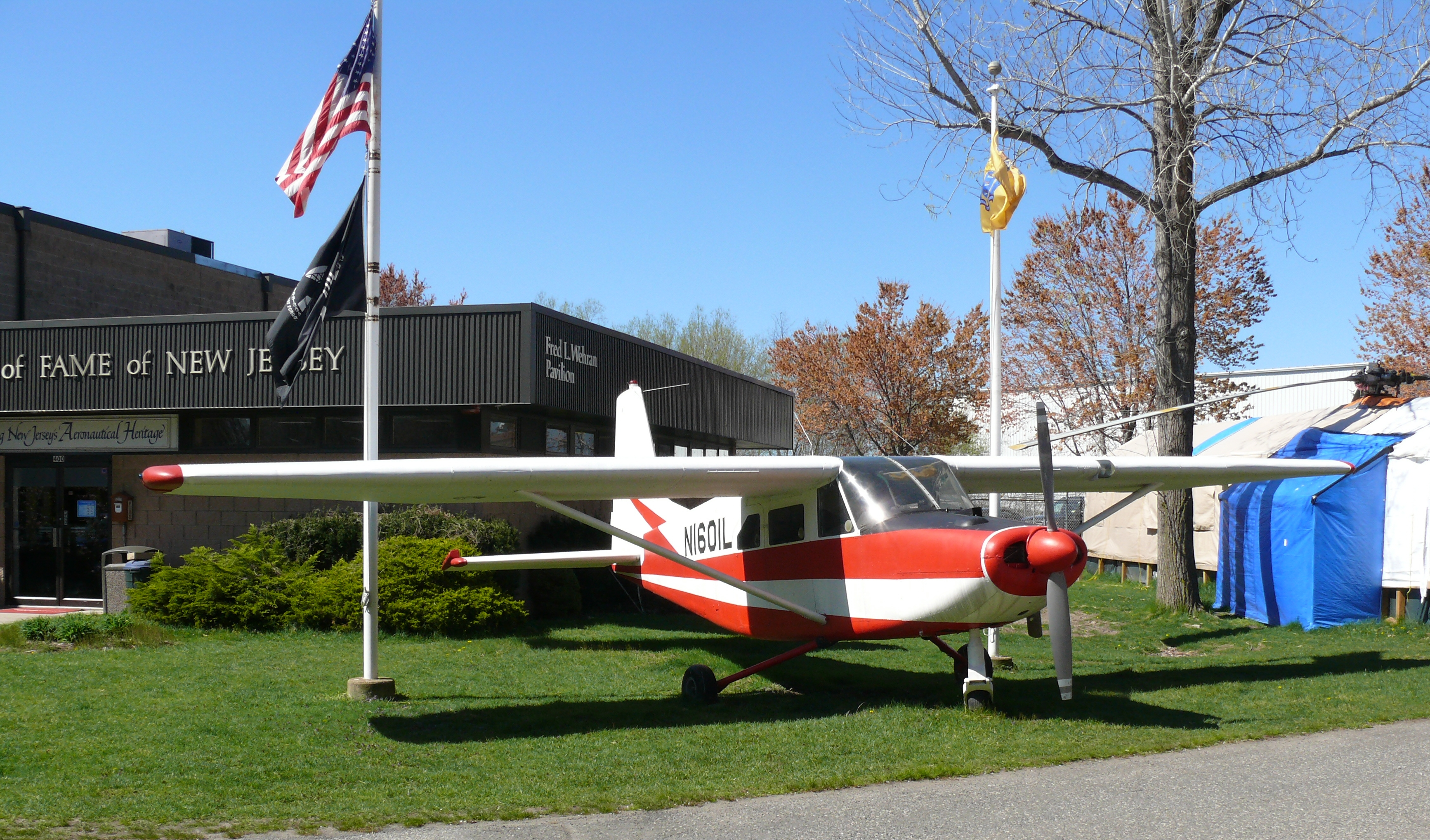 One of two prototypes of the Lockheed L-402 Bushmaster built in 1962 (c/n 1009) at the Aviation Hall of Fame and Museum of New Jersey. Lockheed did not put the aircraft into full production as they felt it would be unprofitable to produce in the US at that time and licensed the design to Aeromacchi of Italy who produced it as the AL-60B and AL-60B. The present owners are trustees of the University of Princeton.